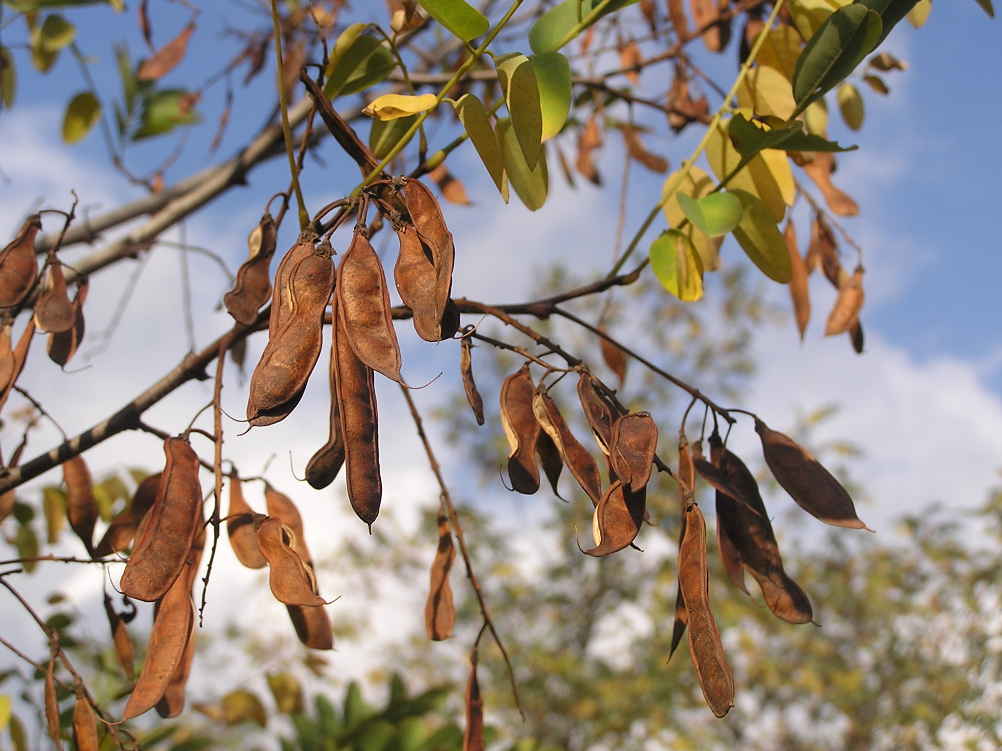 Robinia pseudoacacia fruits